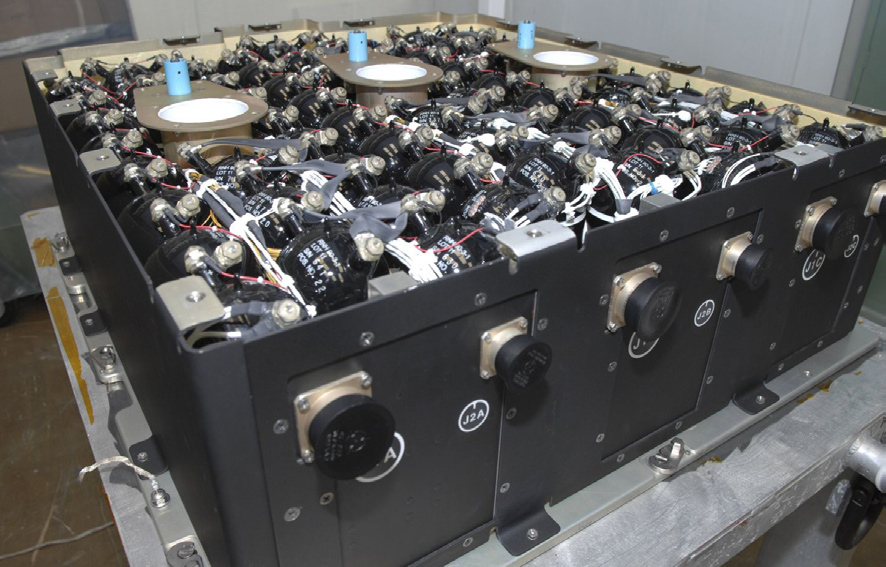 Hubbles Battery Module Assembly with lid removed, showing the cells and power isolation switches.